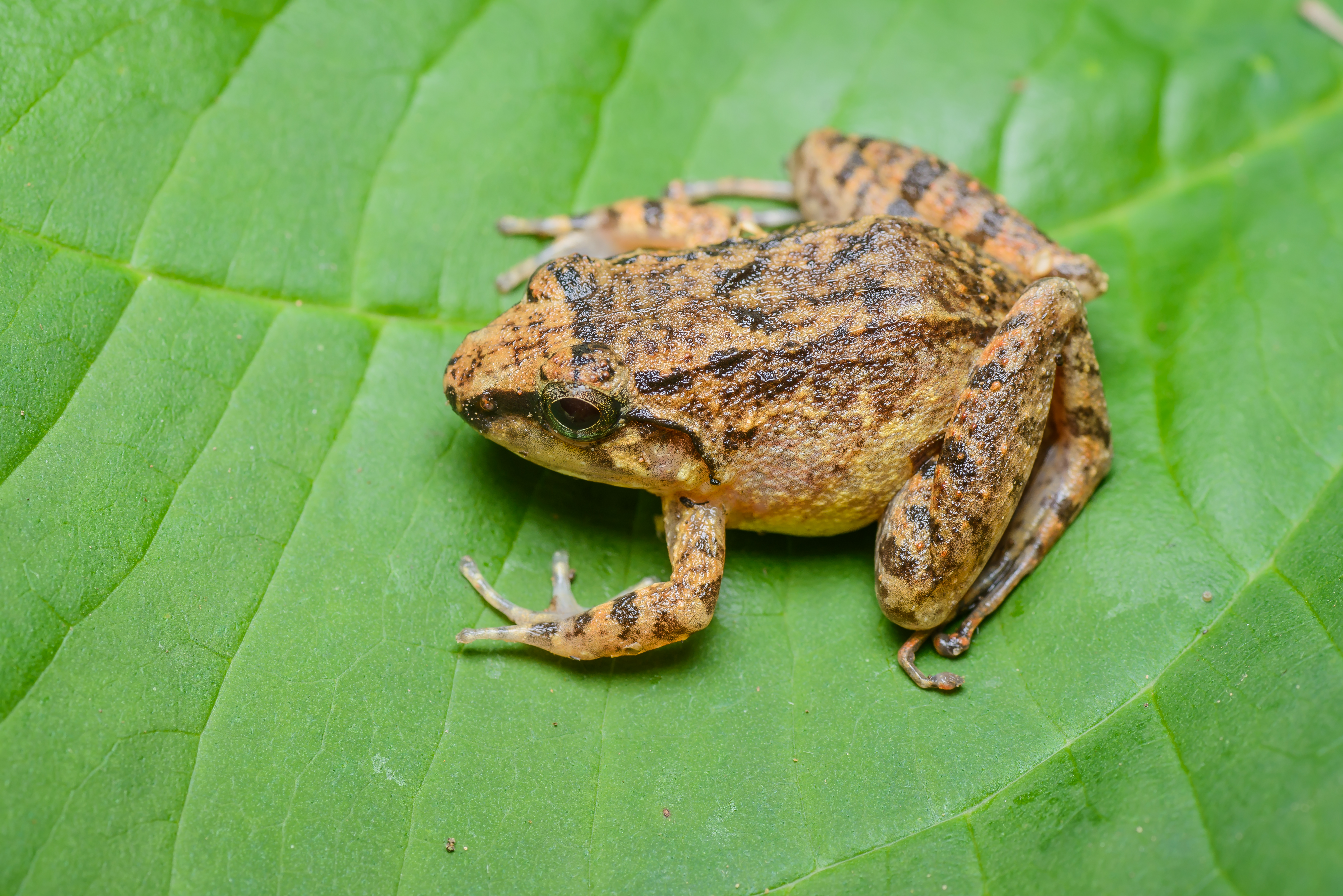 Phanoen Thung, Kaeng Krachan National Park